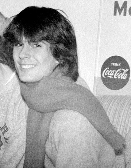 Peter Ries (german award winning producer, composer & remixer)